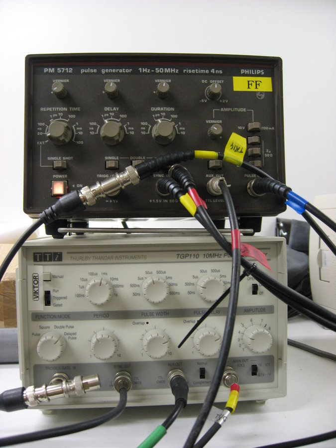 Pulse generators with BNC connectors from a physics laboratory. (To be more precise, AMOLF in Netherlands, photo by Han-Kwang Nienhuys, 2007)